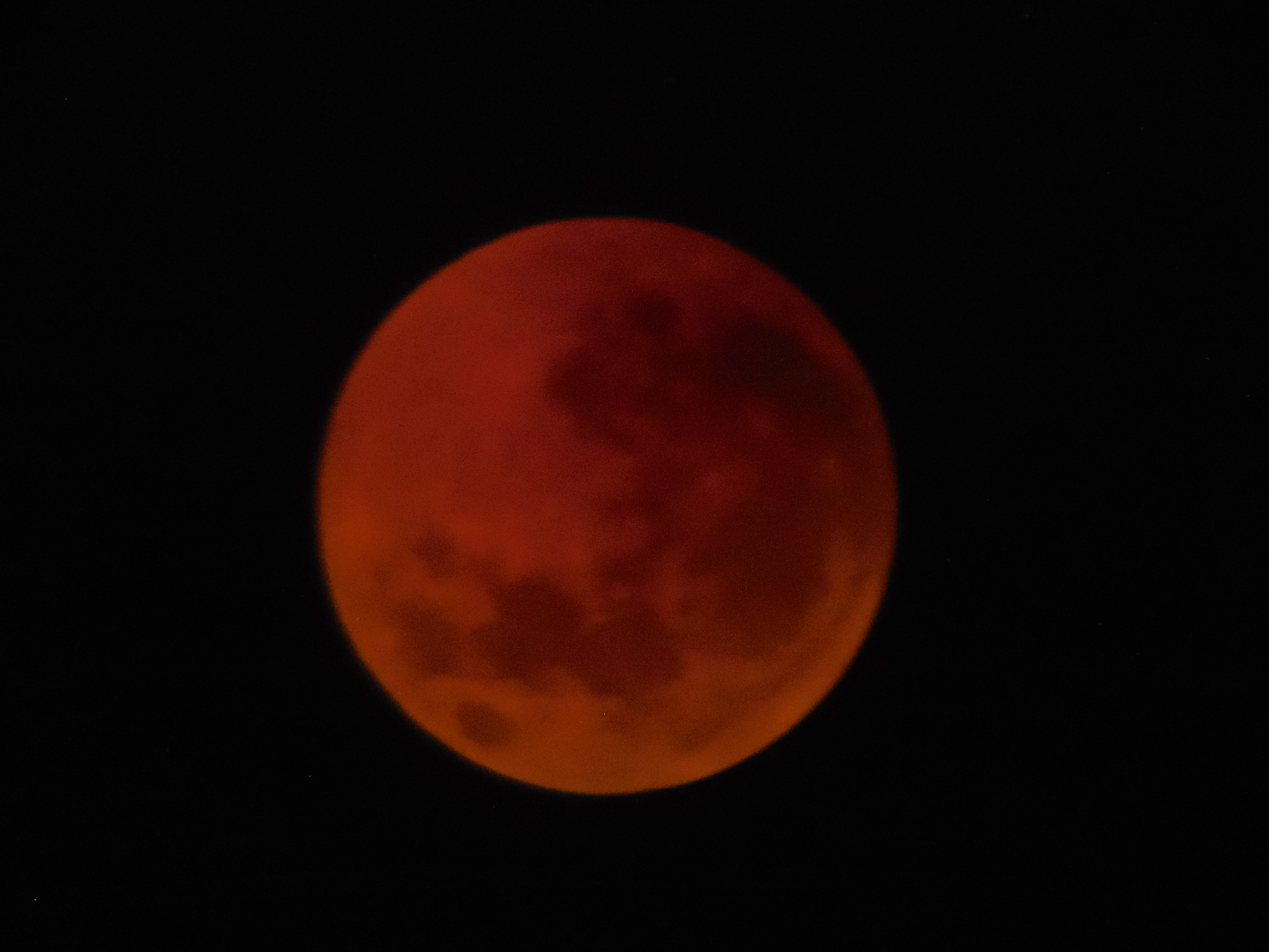 July 2018 total lunar eclipse, as seen from Chelsea, Victoria, Australia. This photo – taken at 06:07am AEST (UTC+10) – shows the dark red moon fully in shadow. Apologies for the blurry photo, which was crudely taken using a point-and-shoot camera hand-held over the eyepiece of a telescope, and which I have not sharpened or otherwise retouched.